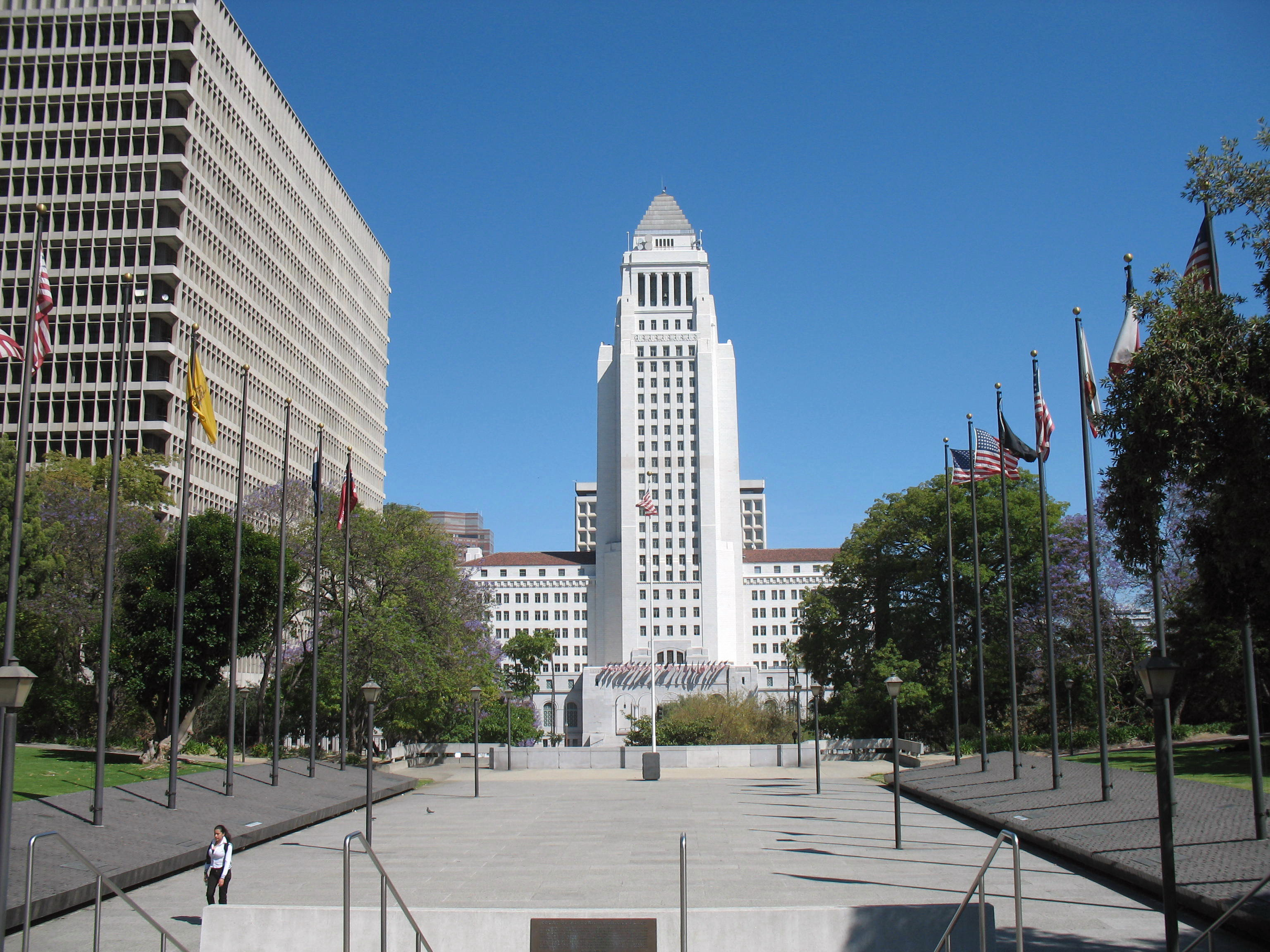 Los Angeles City Hall is the center of government in the city of Los Angeles, California